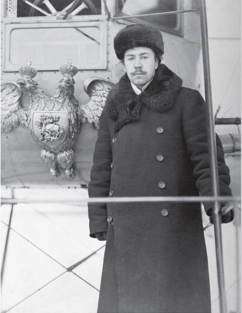 Igor Ivanovich Sikorsky stands in front of the first exemplar of Ilya Muromets, winter 1913/14